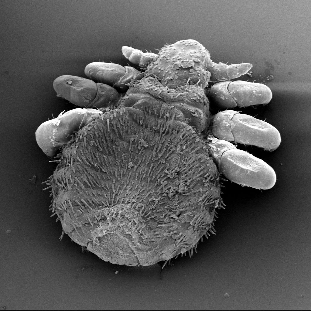 Echinophthirius horridus, Specimens from the collection of V.Smith. LouseBase accession number: 43039 Date taken:19 Sep 2002 Date entered:07 Sep 2003 Magnification:50x Width:1024 Height:1024 sid id: 1326